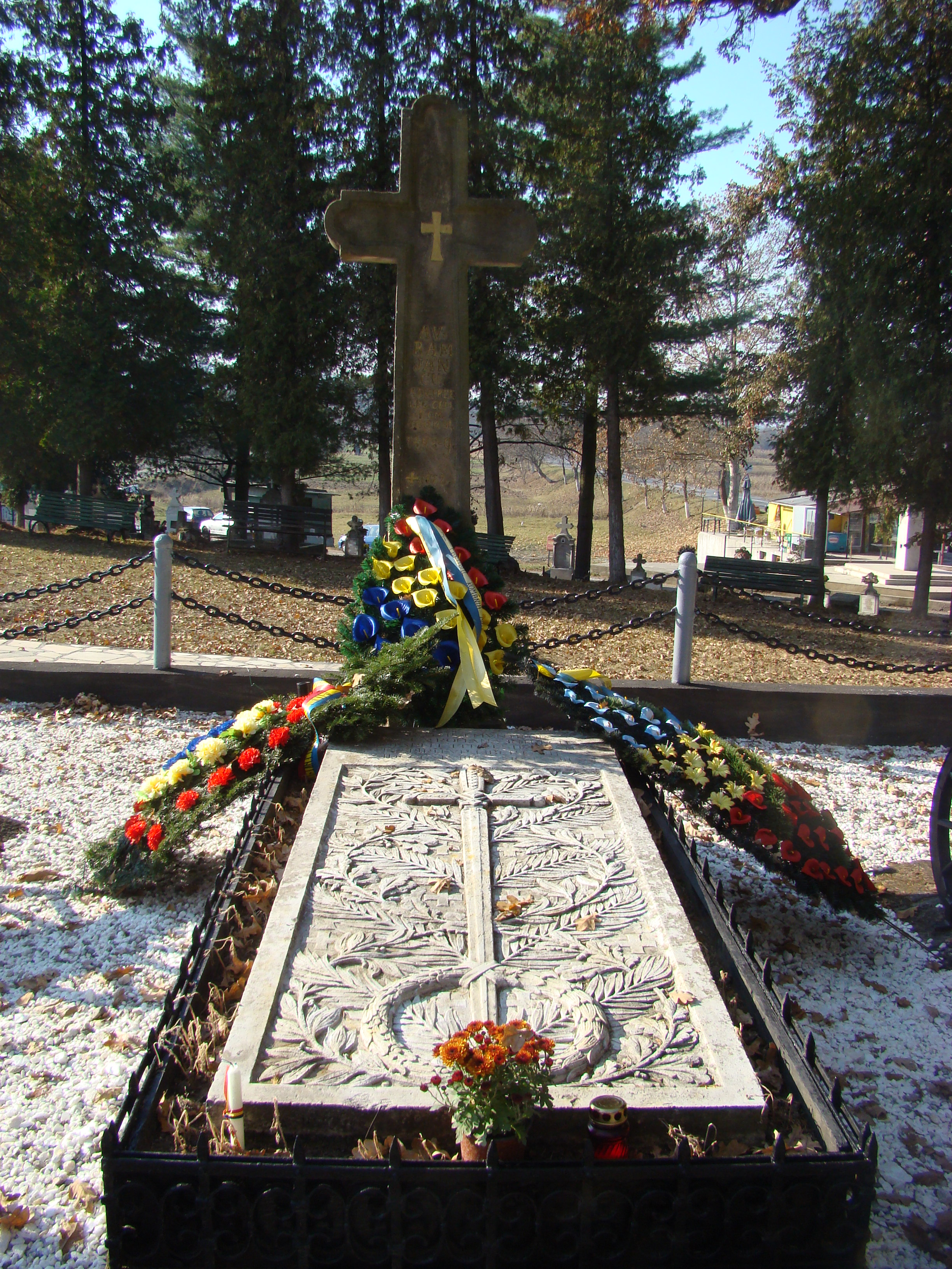 Avram Iancu's tomb